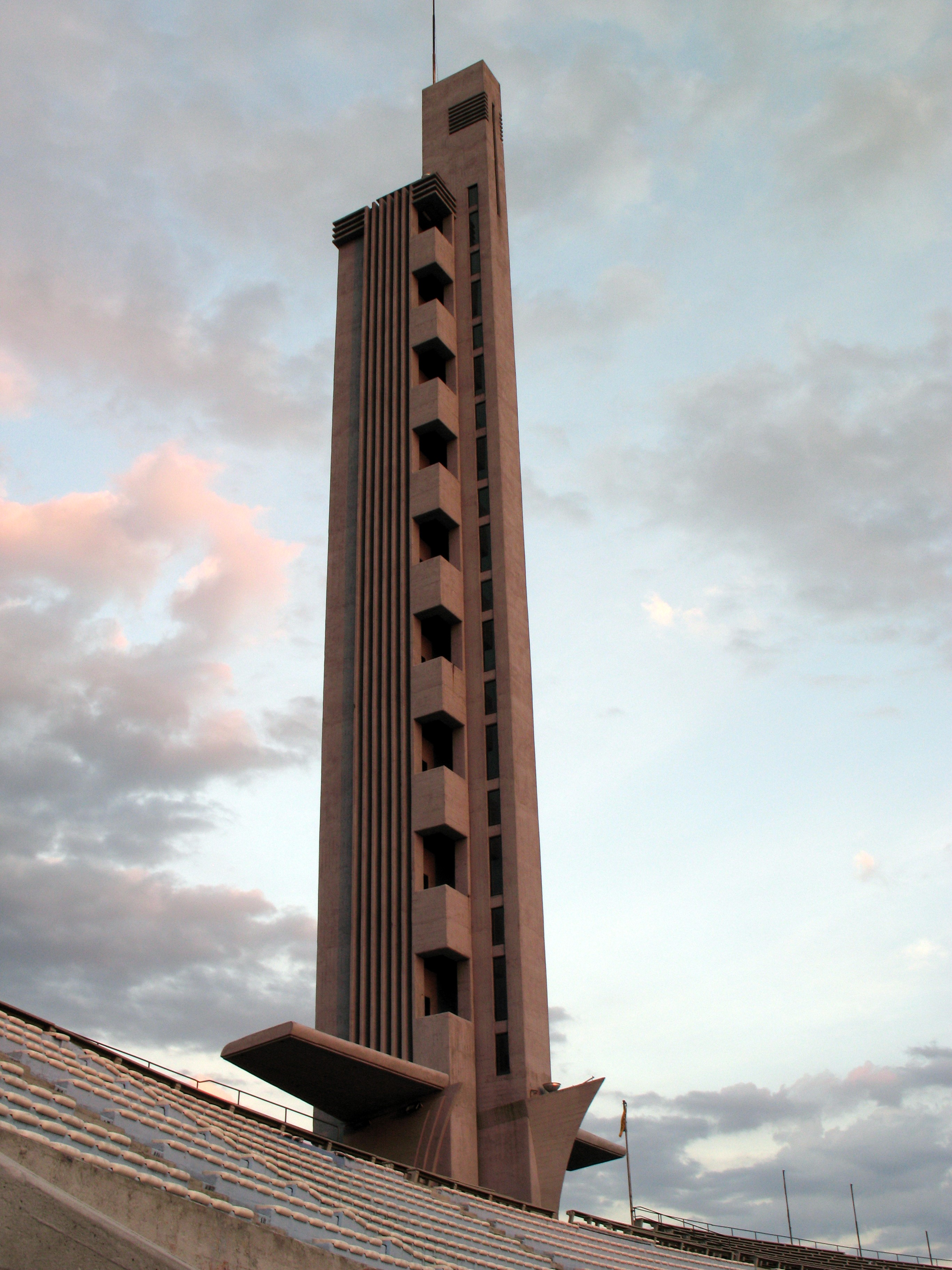 Torre de los Homenajes (Estadio Centenario, Montevideo) from inside the stadium